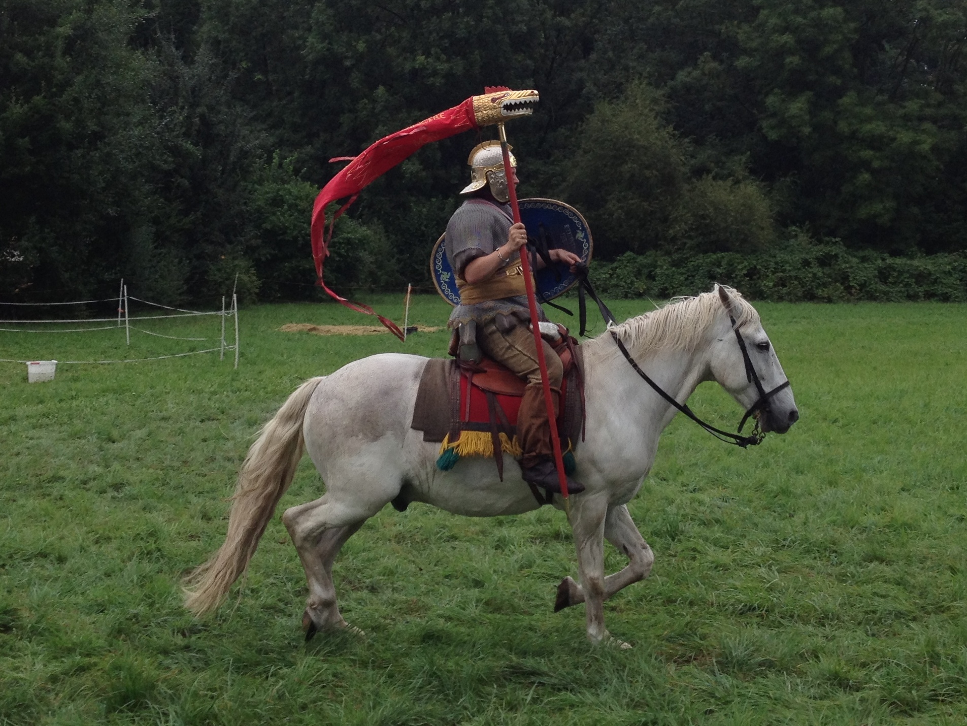 Draconarius - Roman Cavalry Reenactment - Roman Festival at Augusta Raurica - August 2013